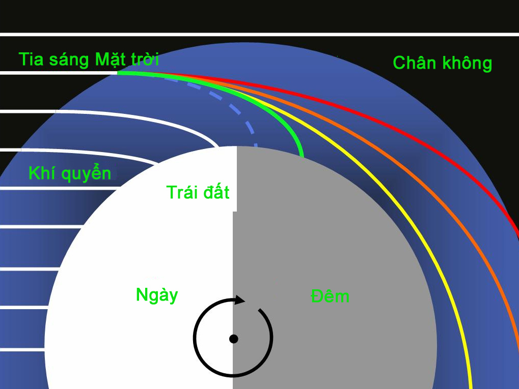 Development of green lights (translated into Vietnamese).